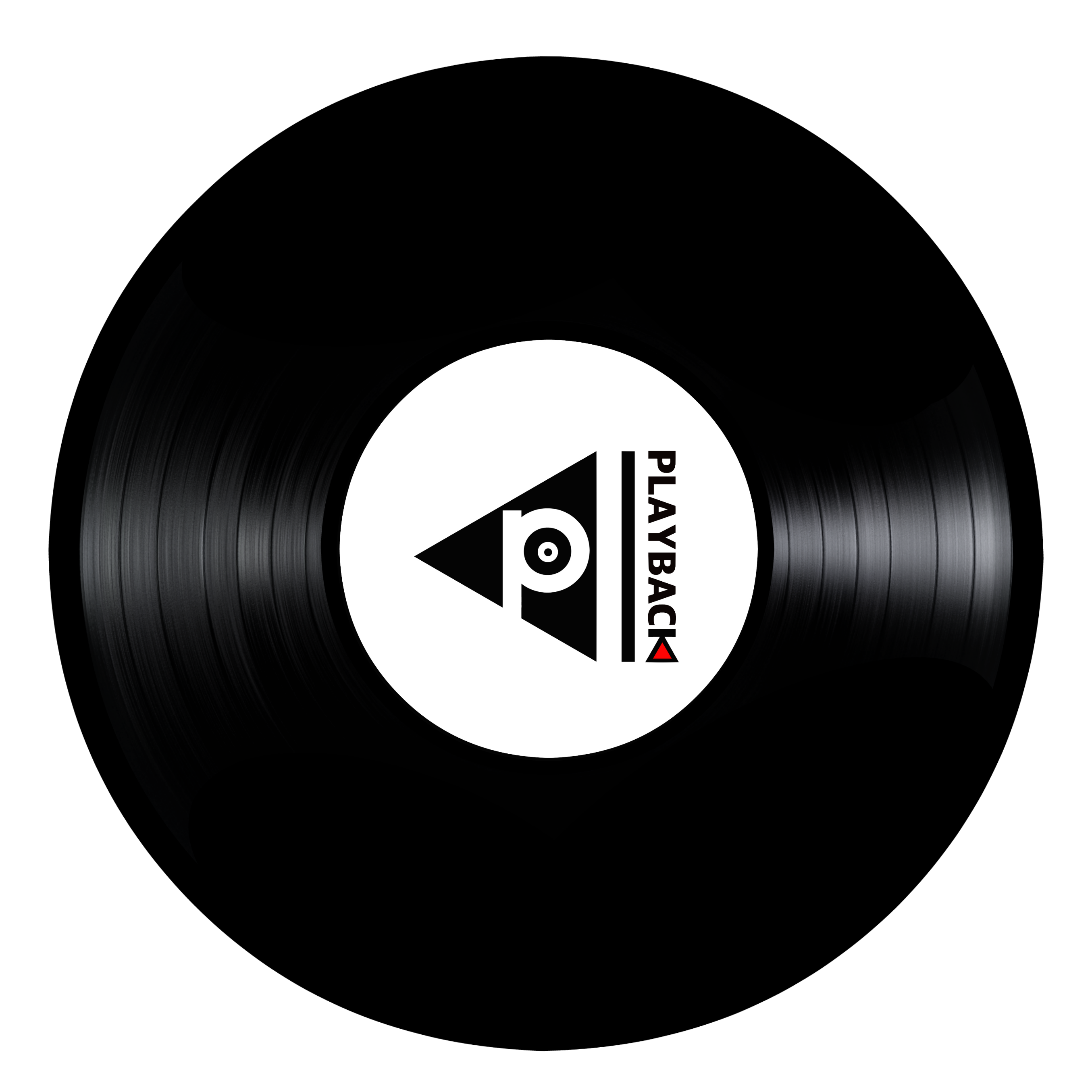 Playback 808 Music